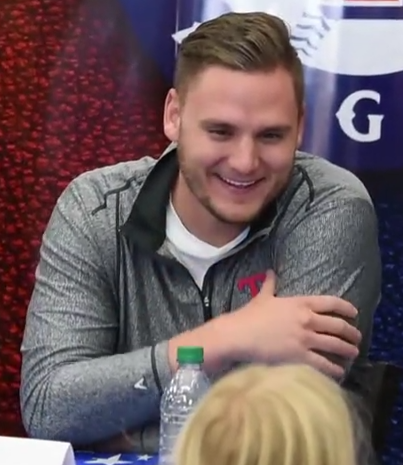 Players from the Texas Rangers organization visited Dyess Air Force Base, Texas, Jan. 28, 2019.